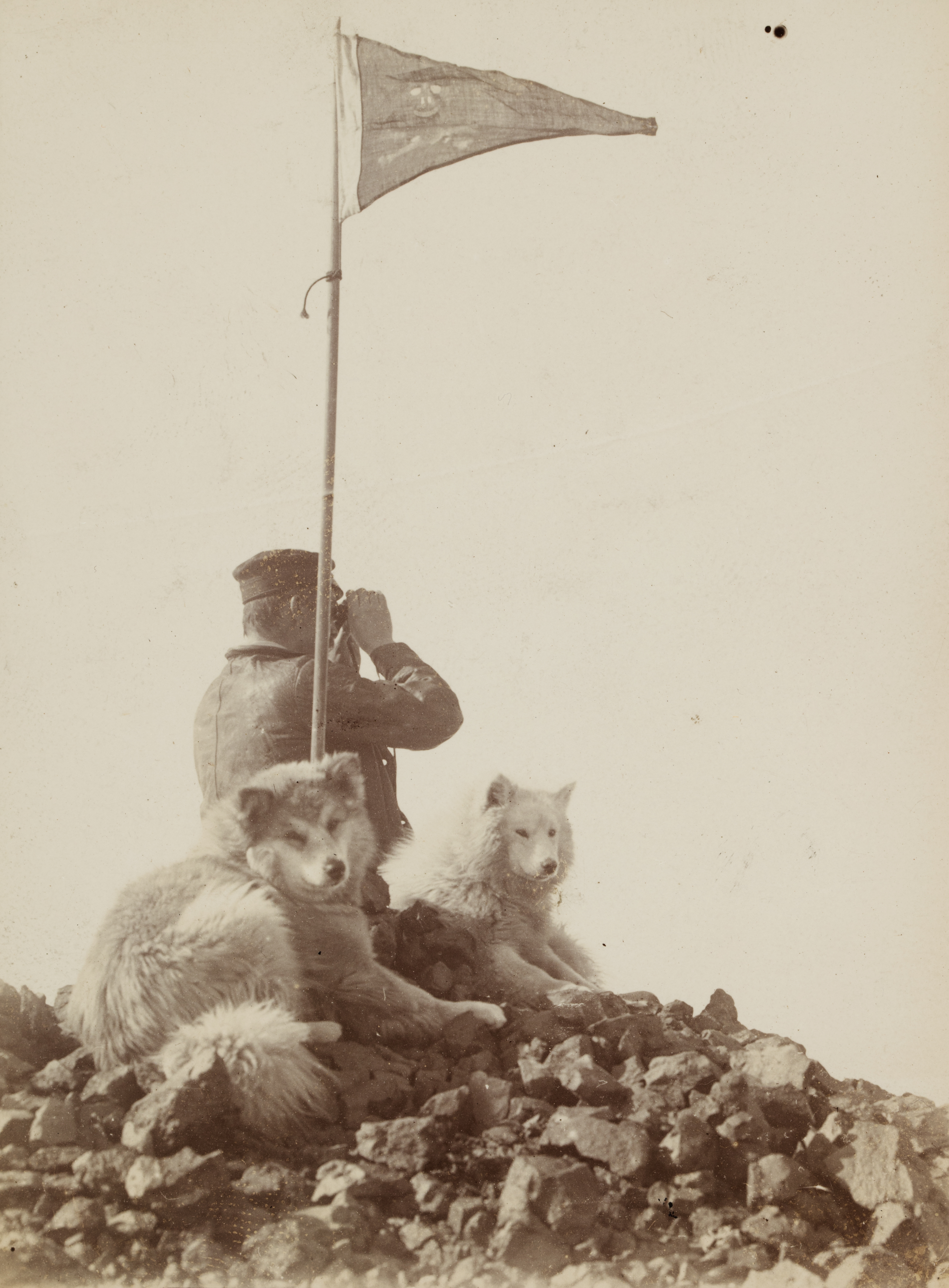 Man with binoculars, sledge dogs and flag, Antarctica, 1899, British Antarctic (Southern Cross) Expedition, 1898-1900, State Library of New South Wales, PXA 2123